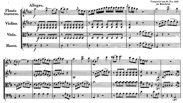 Mozart: Flute Quartet No. 1 in D major, K. 285